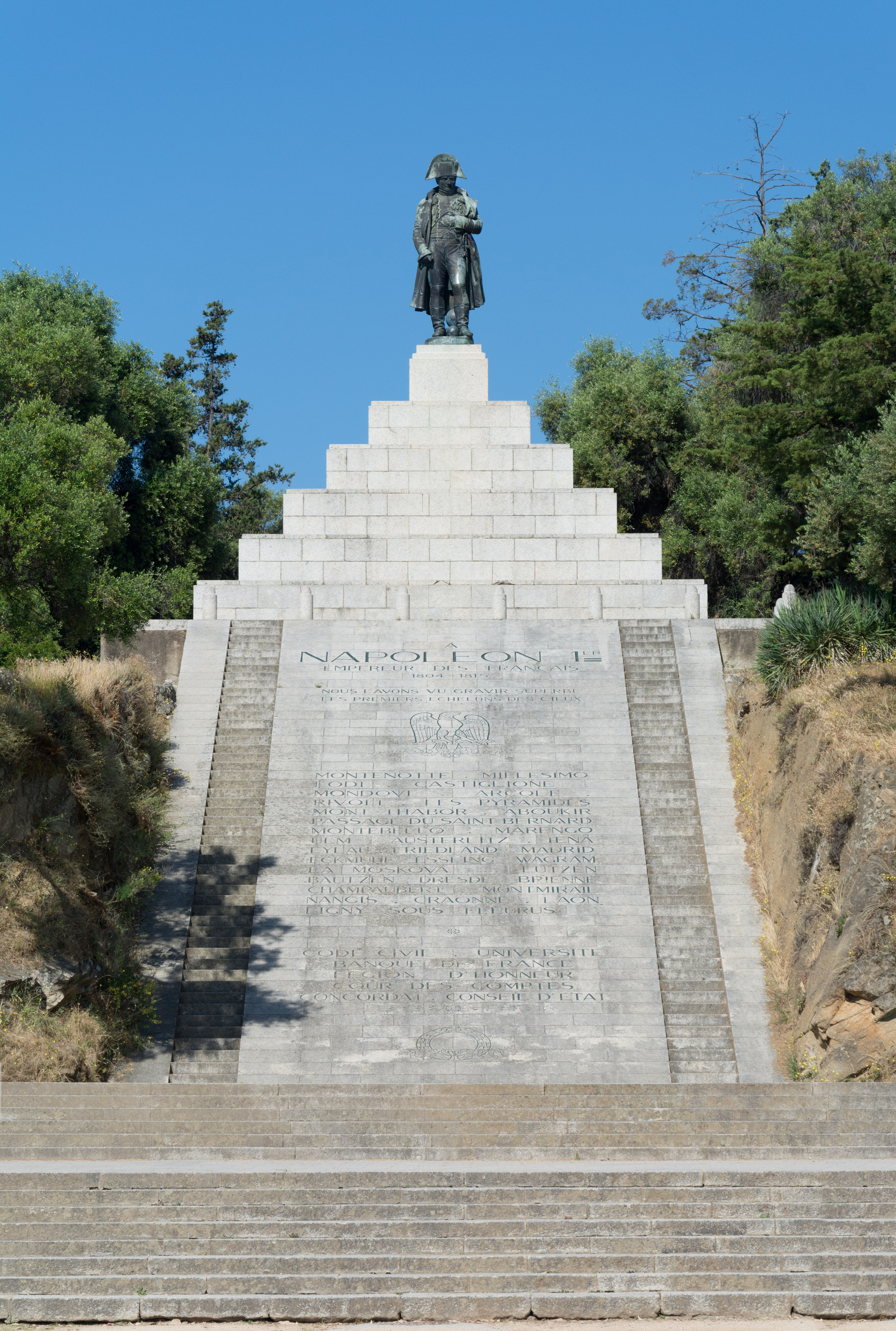 The monument of Napoleon Bonaparte in the Austerlitz Square (ajaccio, Corsica) has a leaning stele where his victories are engraved.